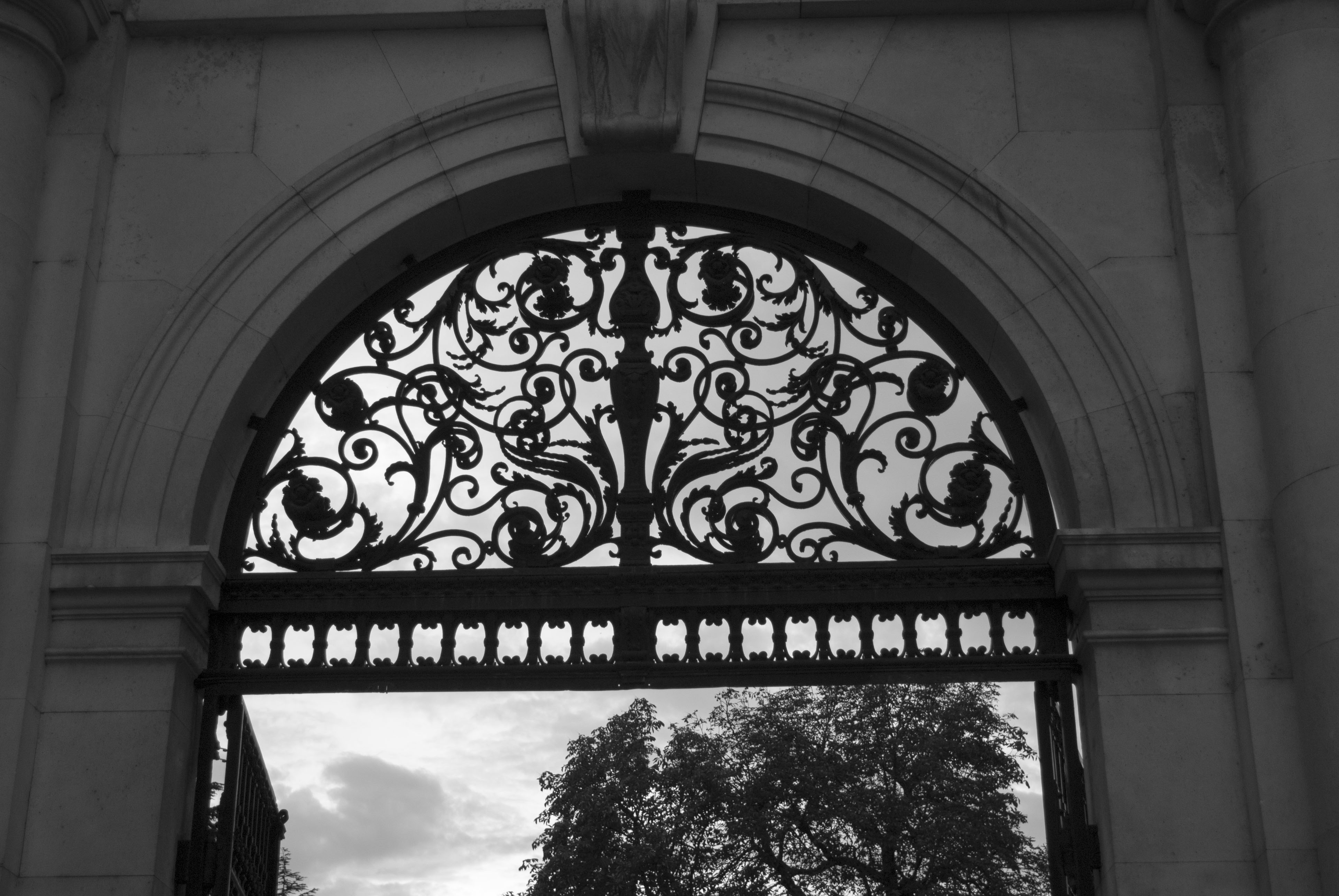 Entrance of Burggarten